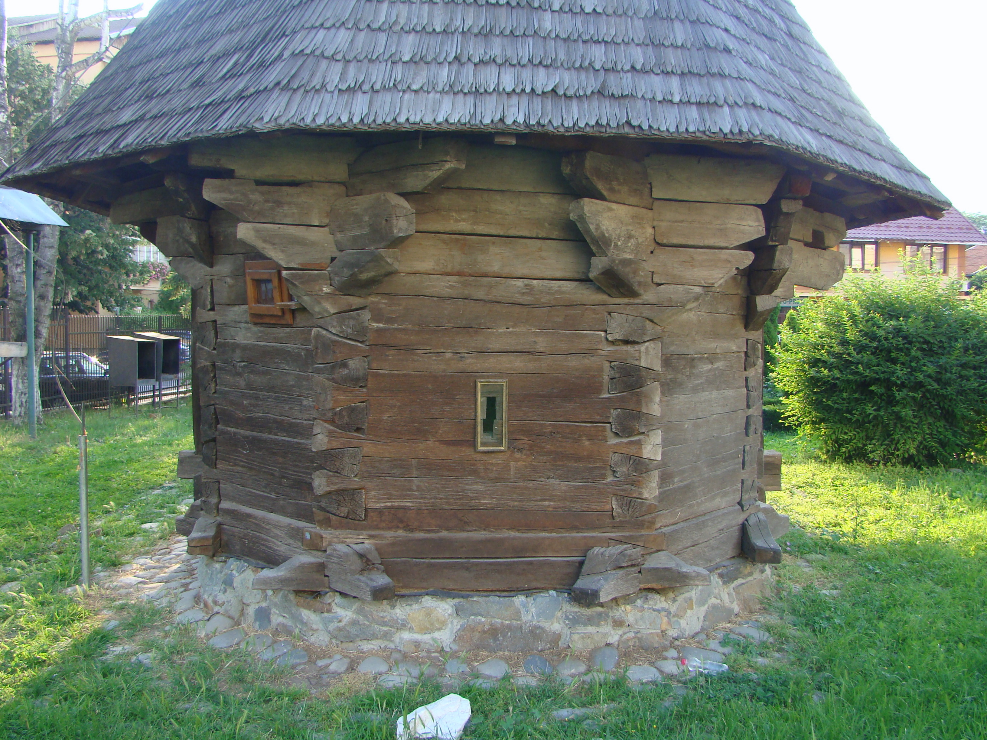 Wooden church in Covrigi, Gorj county, Romania (moved to Târgu Jiu)